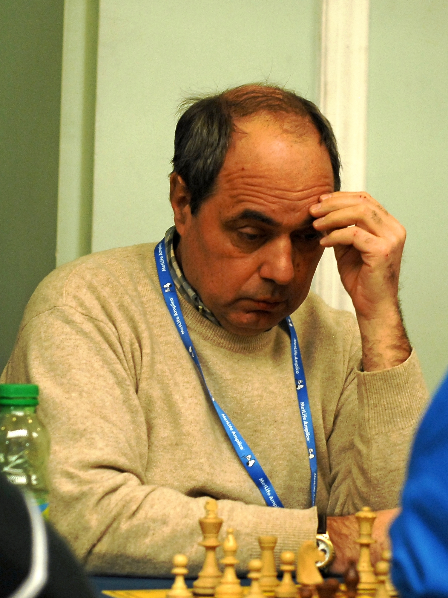 GM Stefan Djuric, European Rapid Chess Championship, Warsaw 2012.